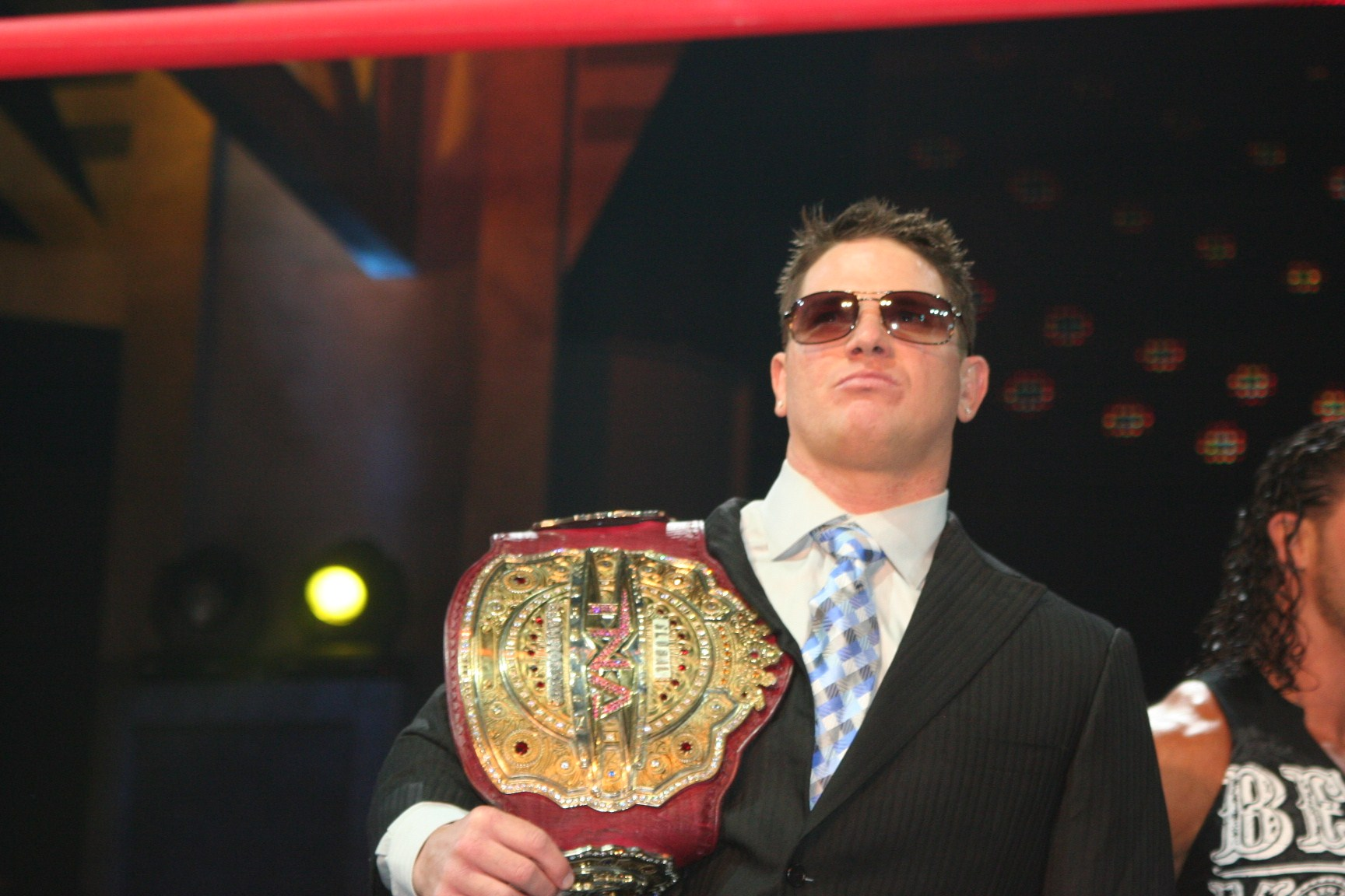 Professional wrestler A.J. Styles during a TNA Impact! taping with the TNA Television Championship.